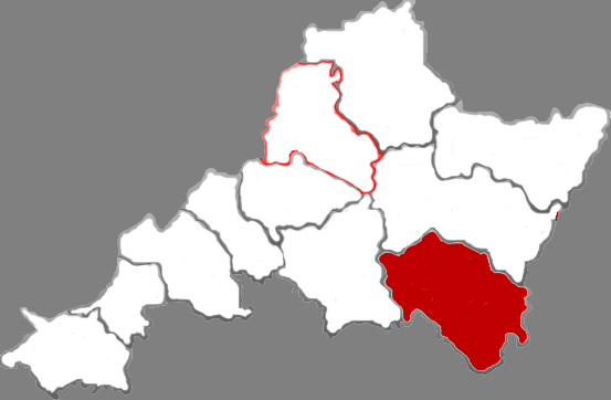 Location of Zuoquan county in JinzhongCity, China